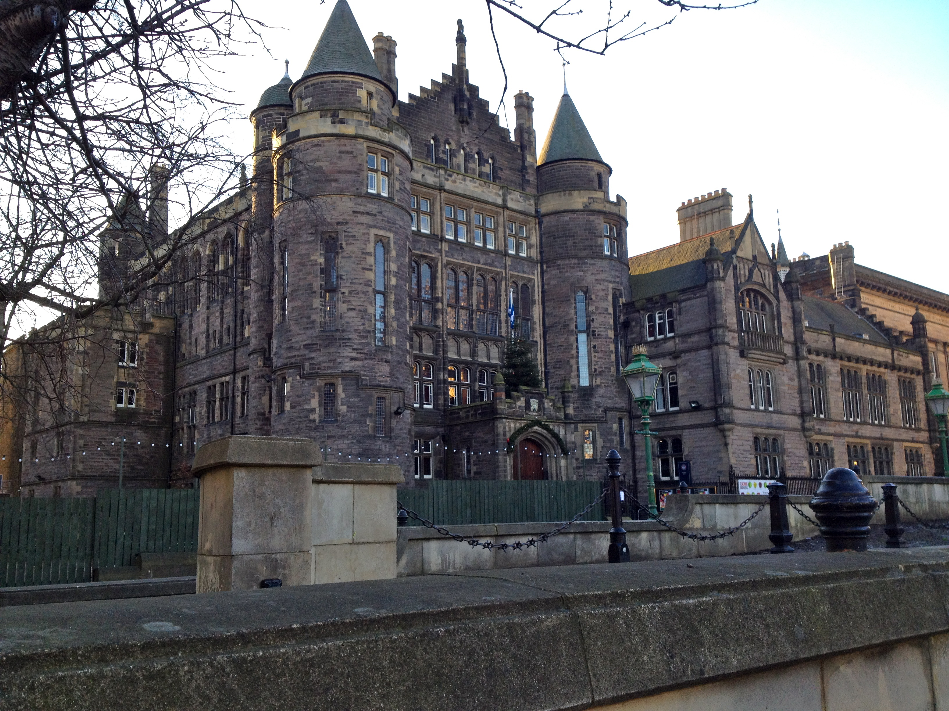 Teviot Row House, University of Edinburgh, UK